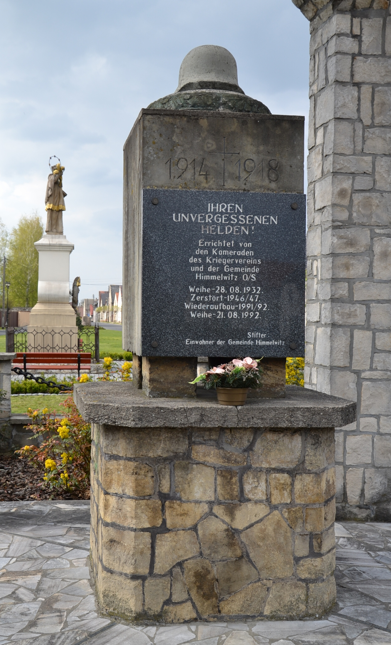 Jemielnica (Himmelwitz) - World War I memorial